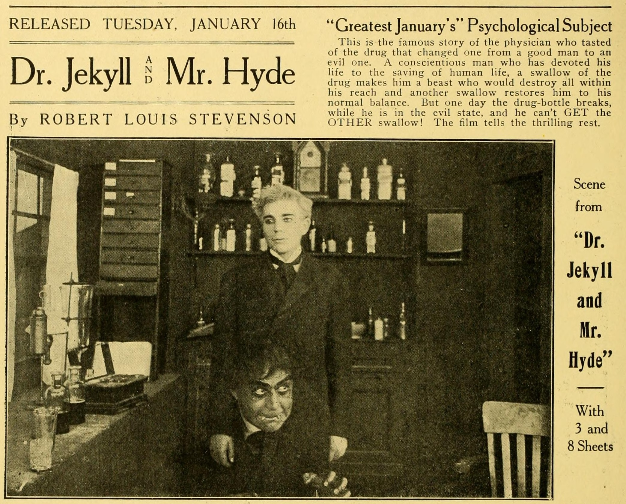 Ad for the movie Dr. Jekyll and Mr. Hyde, from The Moving Picture World, January 13, 1912.